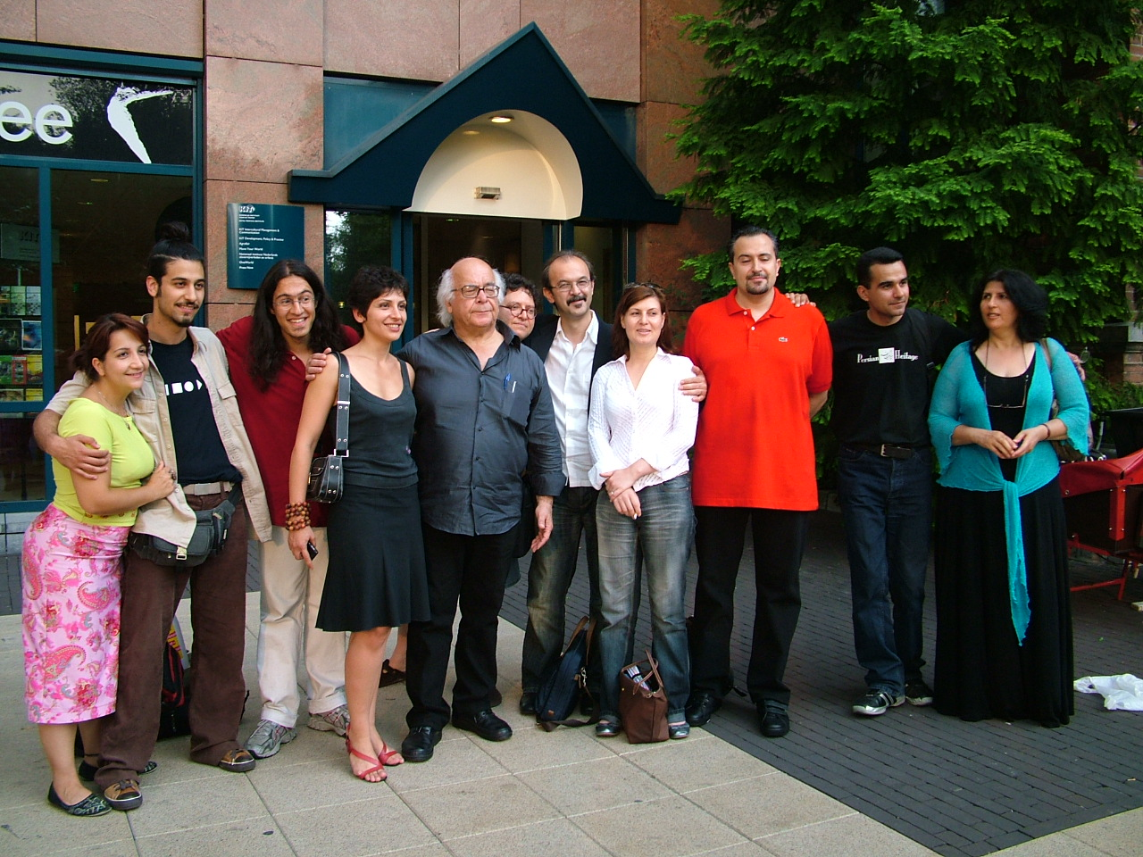 Radio Zamaneh workshop, few days before its launch (Photo by C. Hashemi / PDN) - 29th July 2006. Radio Zamaneh is an Amsterdam-based Persian radio station.